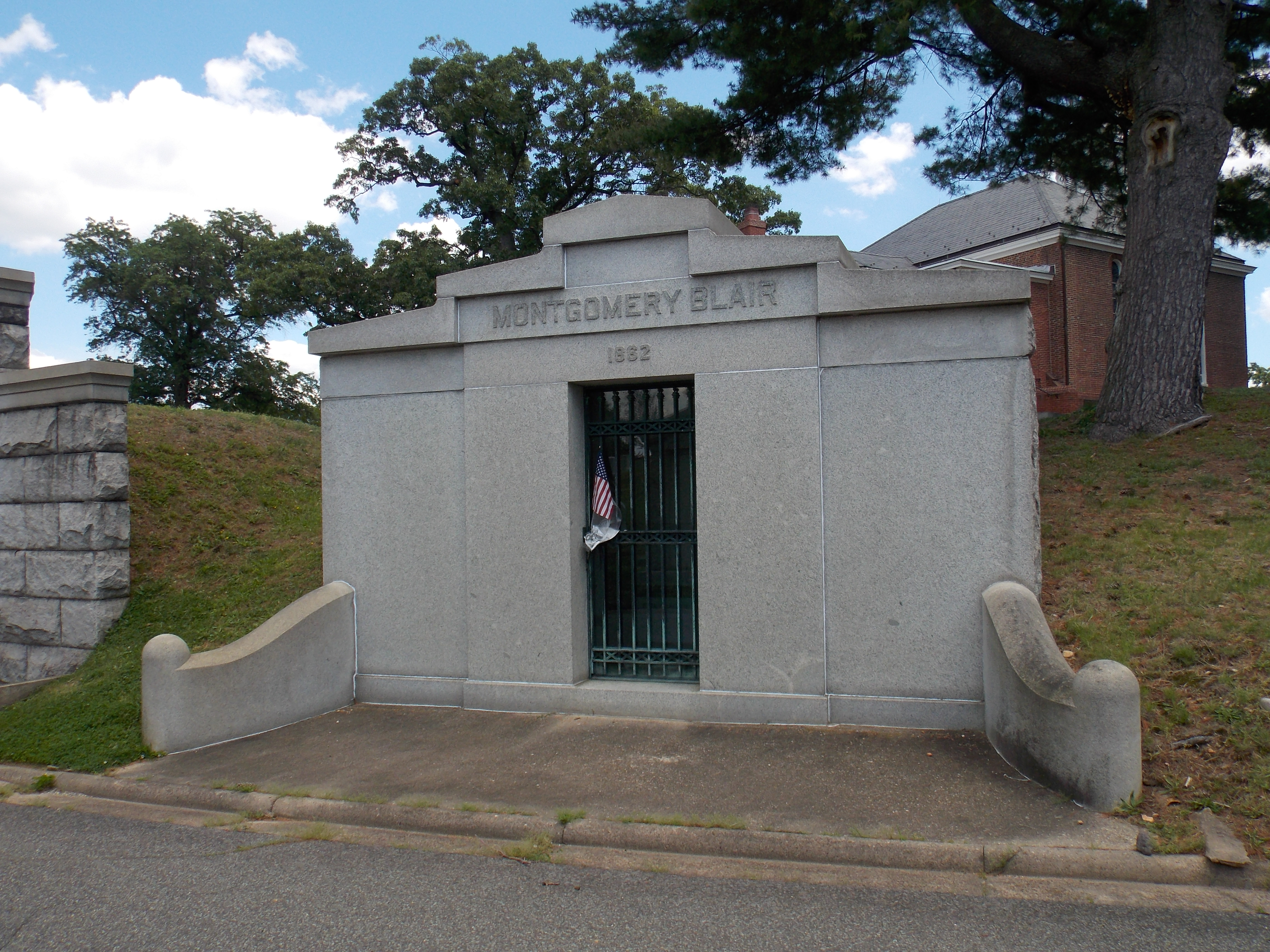 The Montgomery Blair mausoleum in Rock Creek Cemetery in Washington D.C. Montgomery Blair was Abraham Lincoln's Postmaster General and also served as legal counsel to Dred Scott before the U.S. Supreme Court. Other members of the Blair family are also buried here.